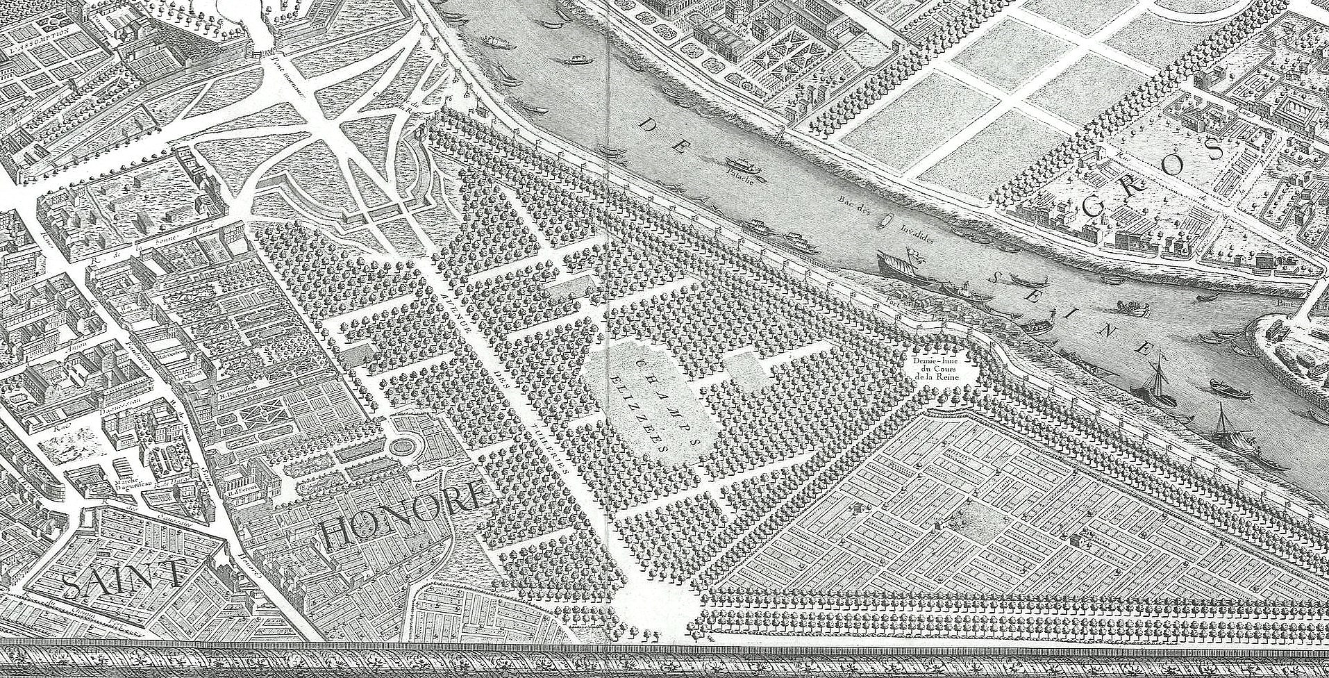 Michel-Étienne Turgot (gestorben 1751), Detail aus Plan von 1739 (Elisenfeld)